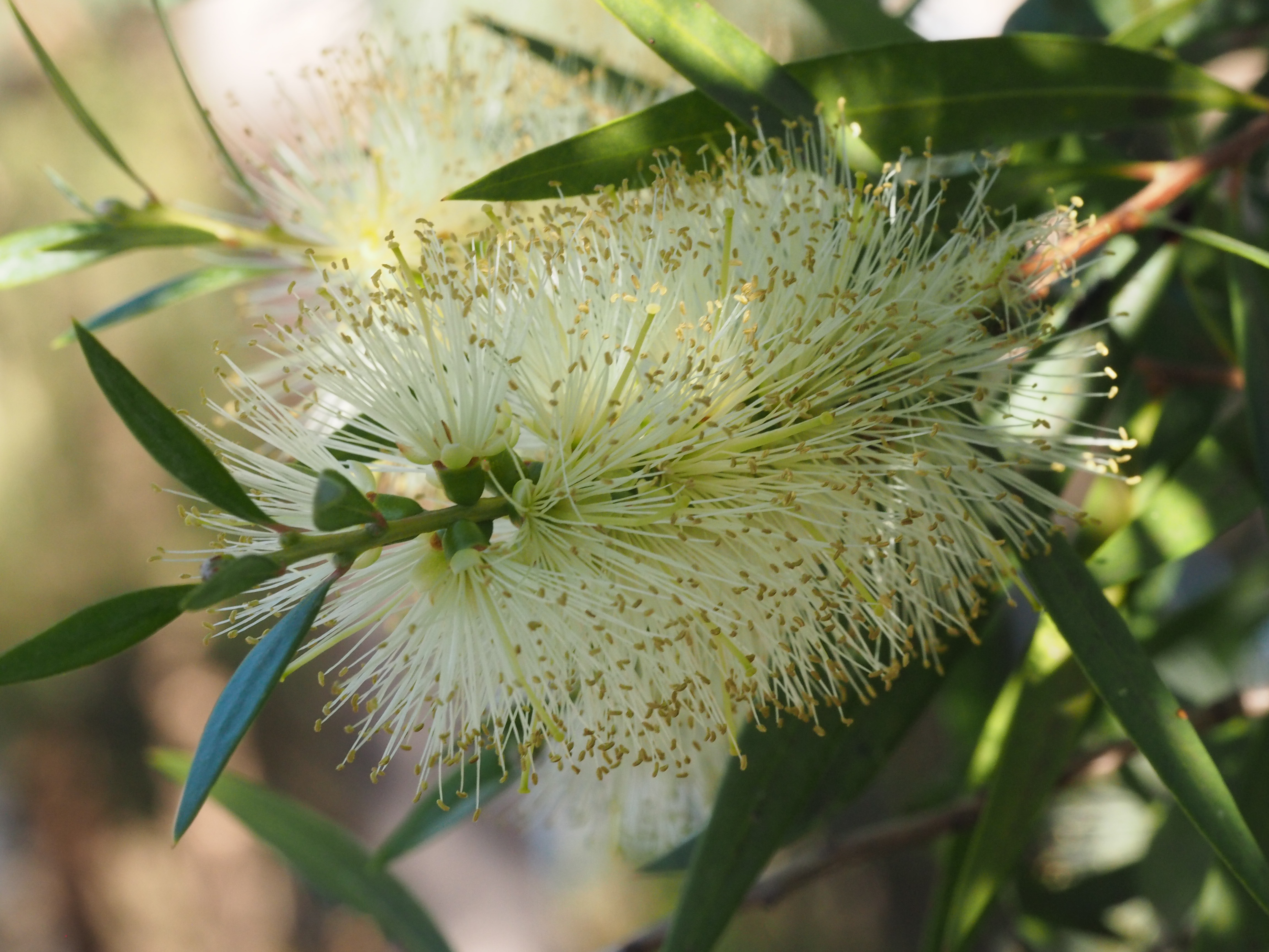 Melaleuca salicina ICallistemon salignus) growing near Coffs Creek in Coffs Harbour